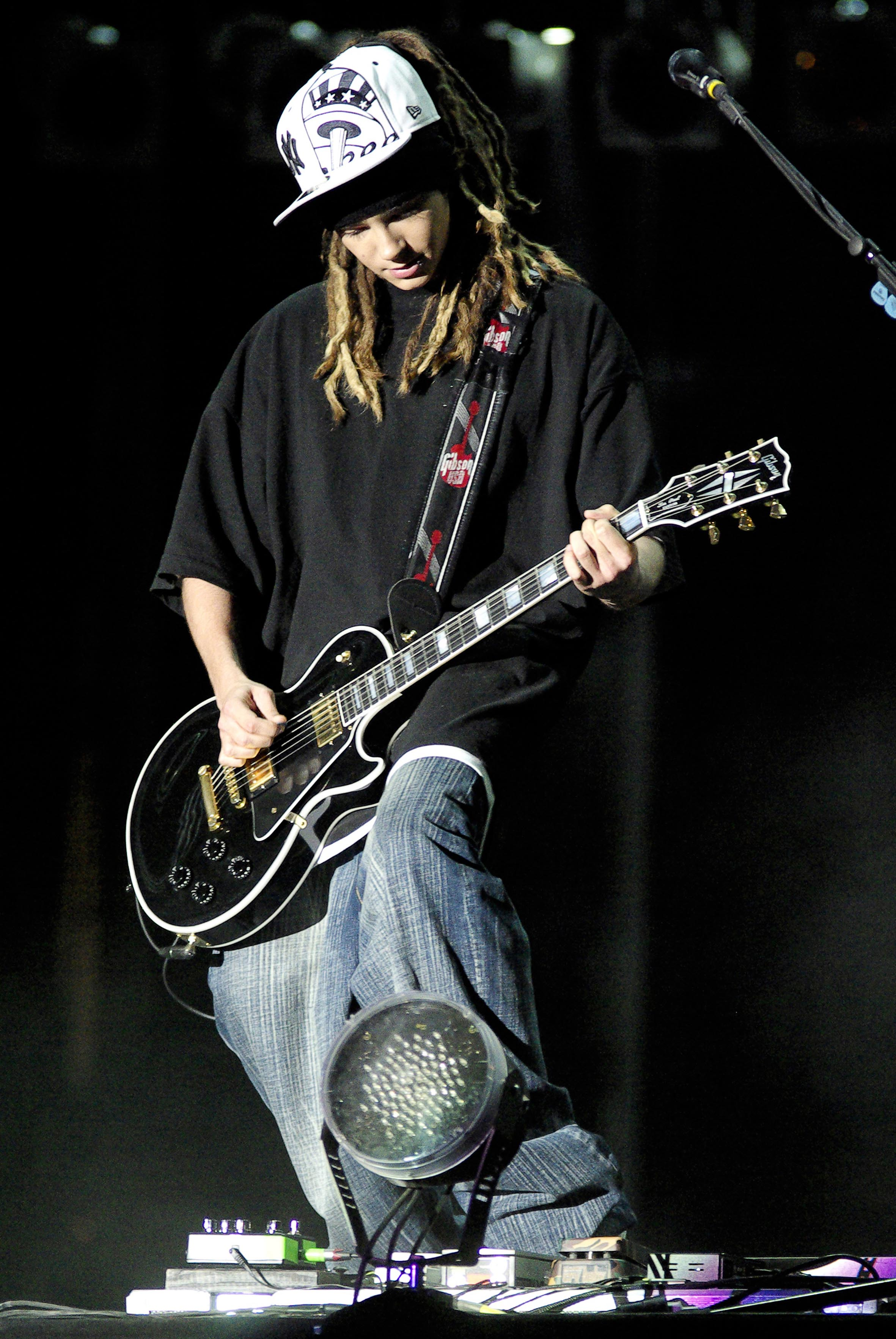 Tom Kaulitz at the Rock in Rio concert in 2006.